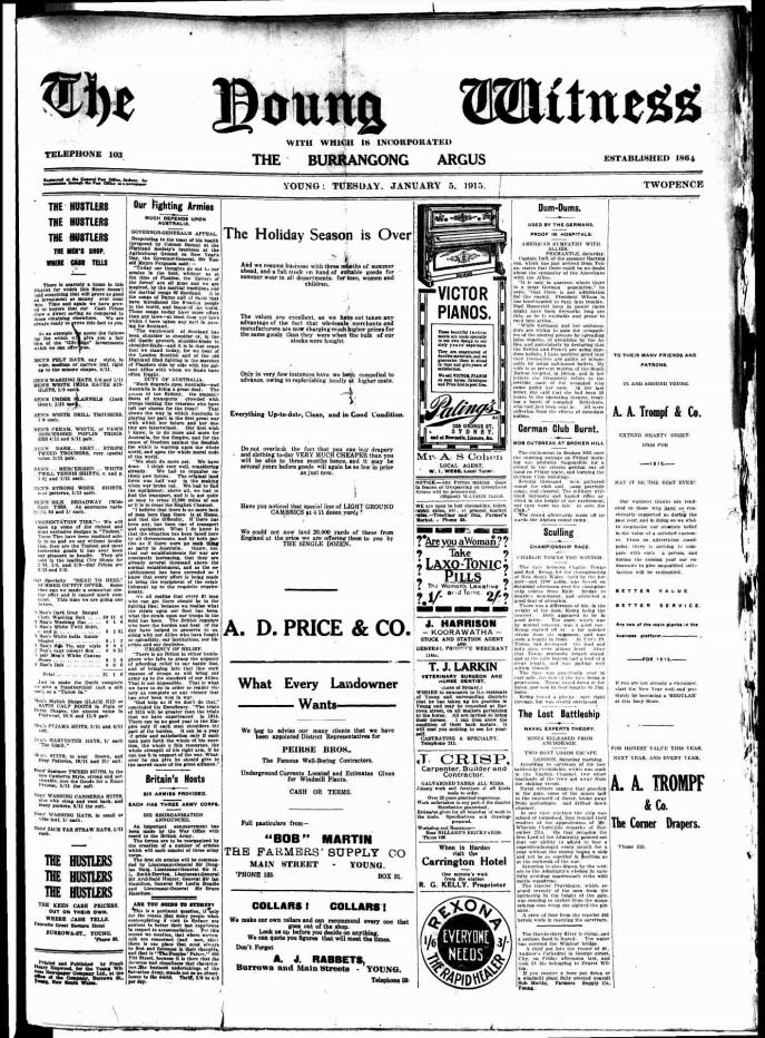 The front page of the Young Witness newspaper on 5 January 1915